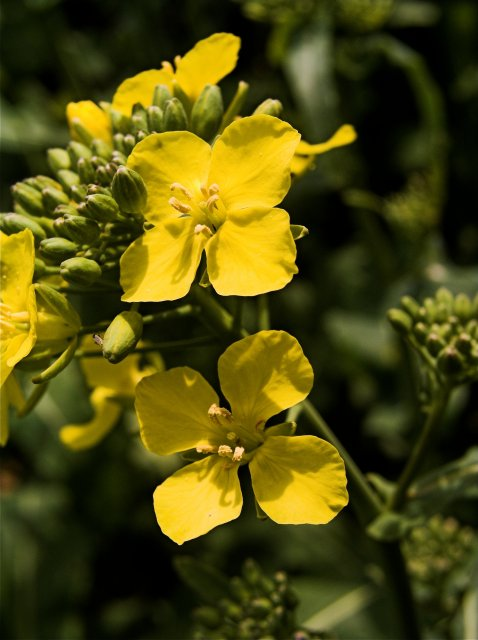 Blossom of Rapeseed plant. Close up of the yellow blossoms that fill our fields.